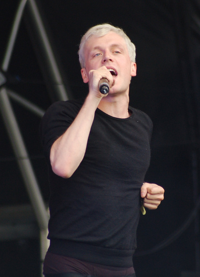 Mr Hudson performing at the Lovebox Weekender festival in Victoria Park, London in 2009